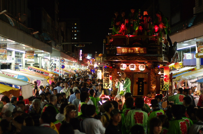 A performance in the Yoshiwara-gion festival, Fujinomiya, Shizuoka, Japan.